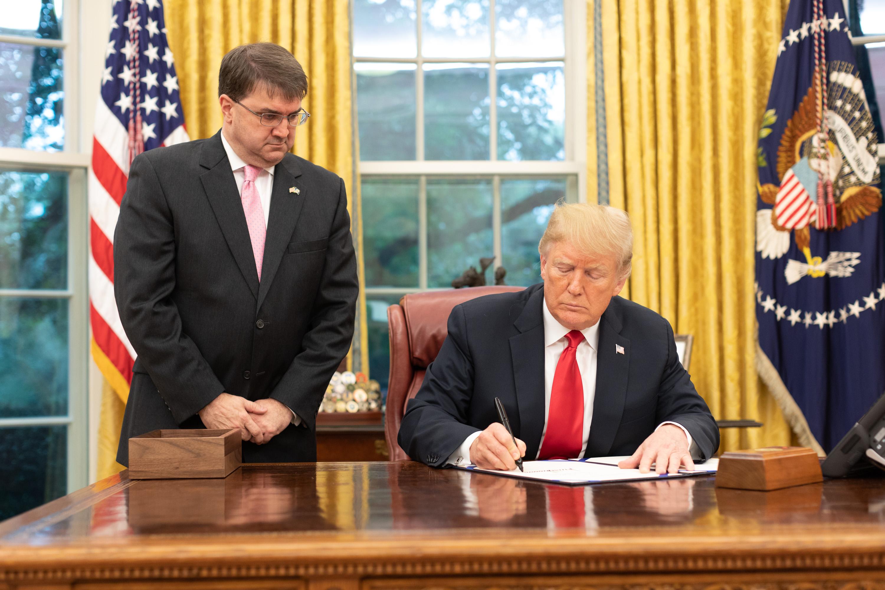 President Donald J. Trump, joined by U.S. Secretary of Veterans Affairs Robert Wilkie, signs H.R. 2147, The Veterans Treatment Court Improvement Act of 2018 Monday, Sept. 17, 2018, in the Oval Office of the White House. (Official White House Photo by Joyce N. Boghosian)